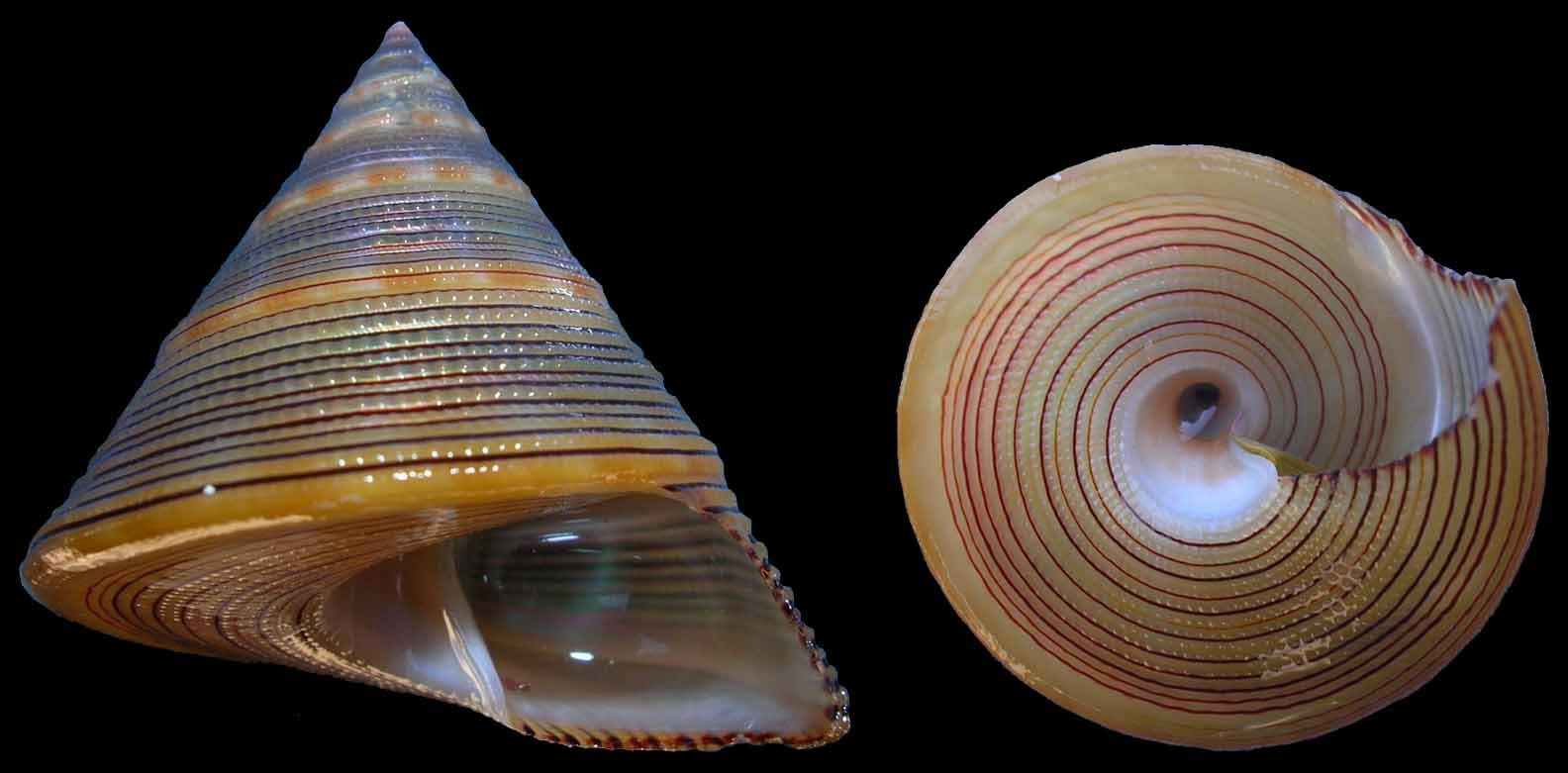 Photo of apertural and umbilical view of the shell of Calliostoma javanicum.